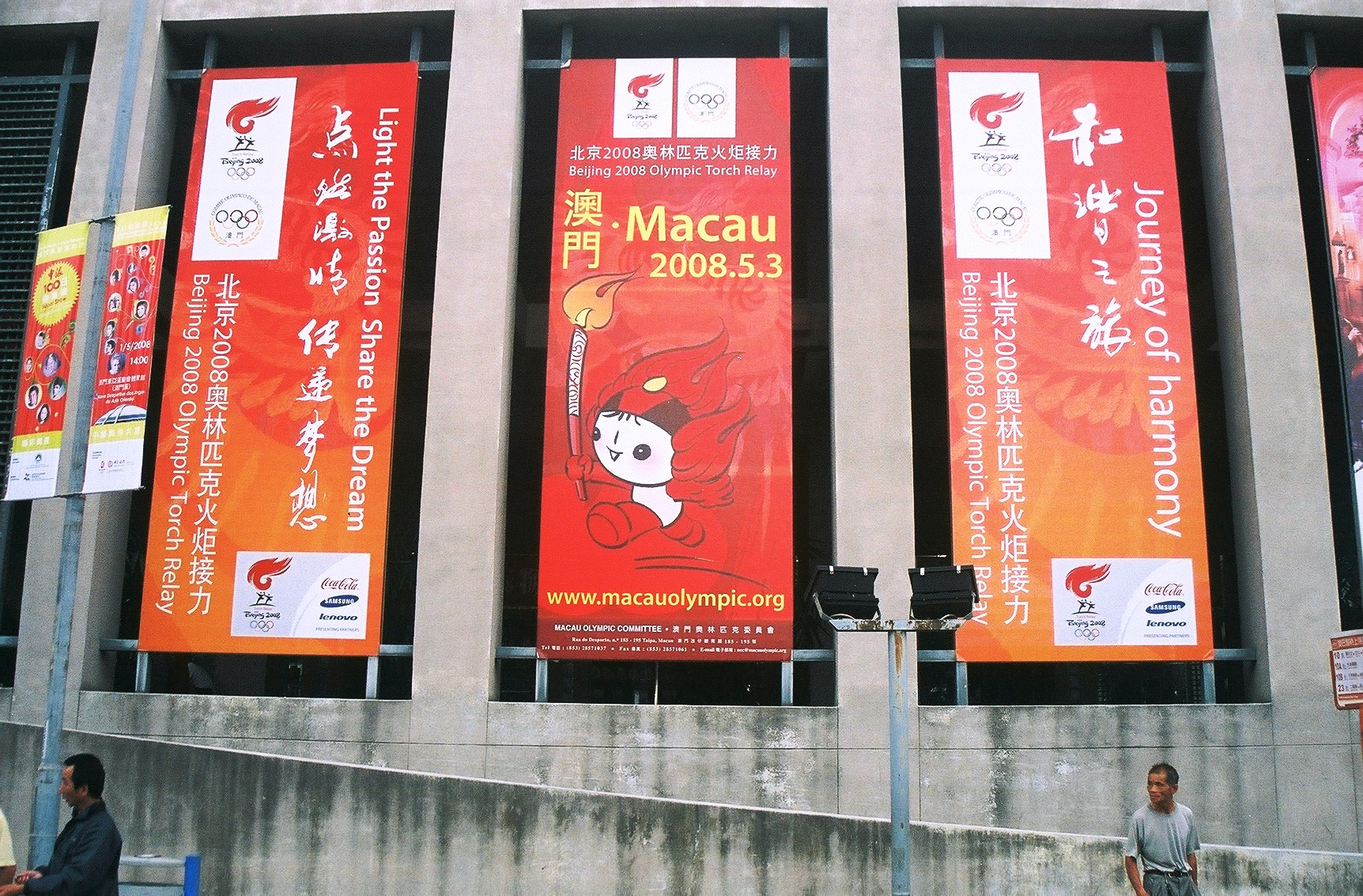 Posters at CAT, Macau